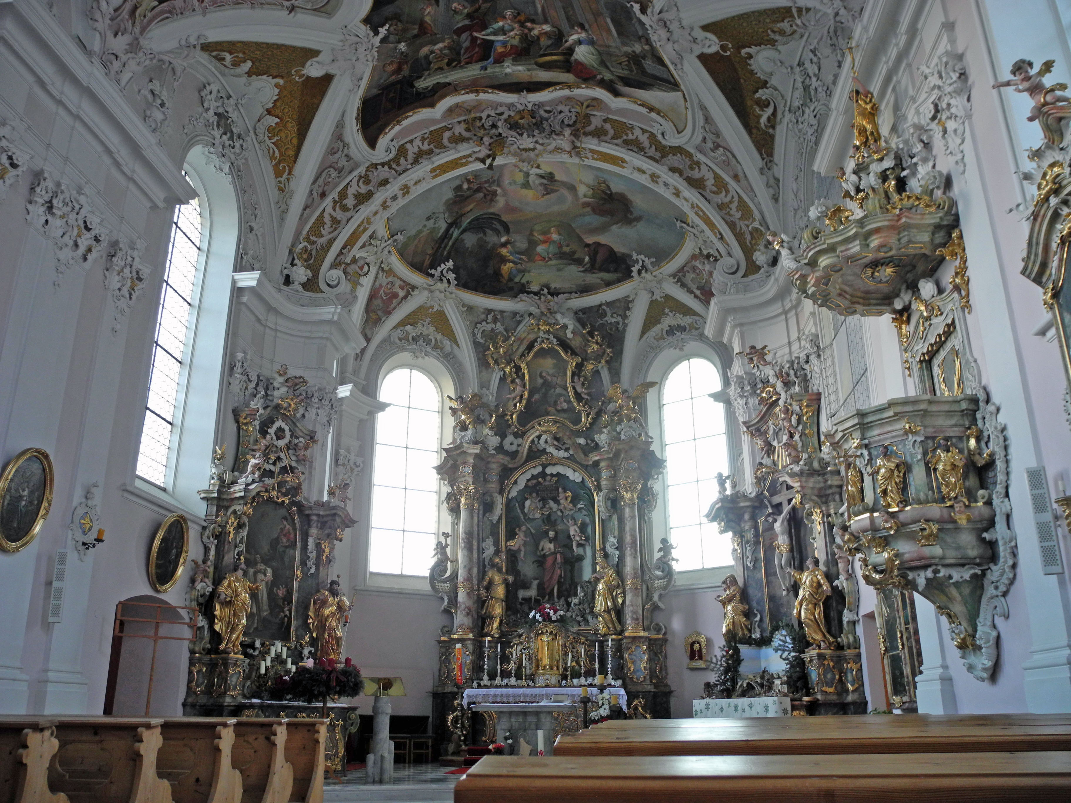 Parish church John the Baptist in Stams (Tyrol)